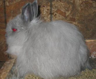 a light smoke pearl jersey wooly rabbit. Phote by Elizabeth M.E. Hall of Fire Song Ponies